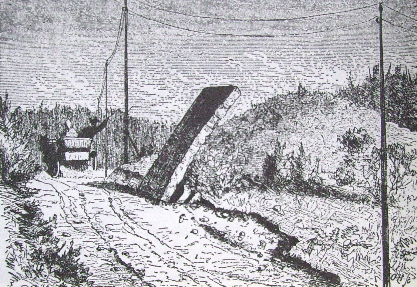 Picture of Kungshållet on Kjula ås. Telegraph lines between Eskilstuna-Stockholm is seen on picture.